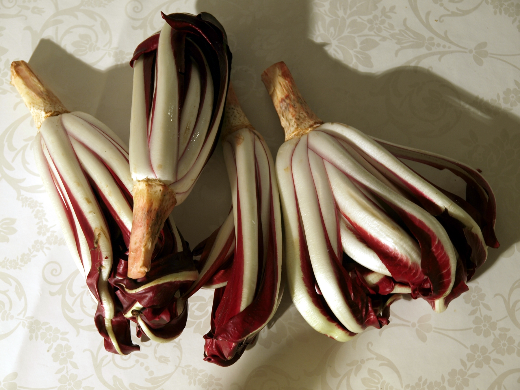 we took some radicchio home from the rialto market. shown on our tablecloth